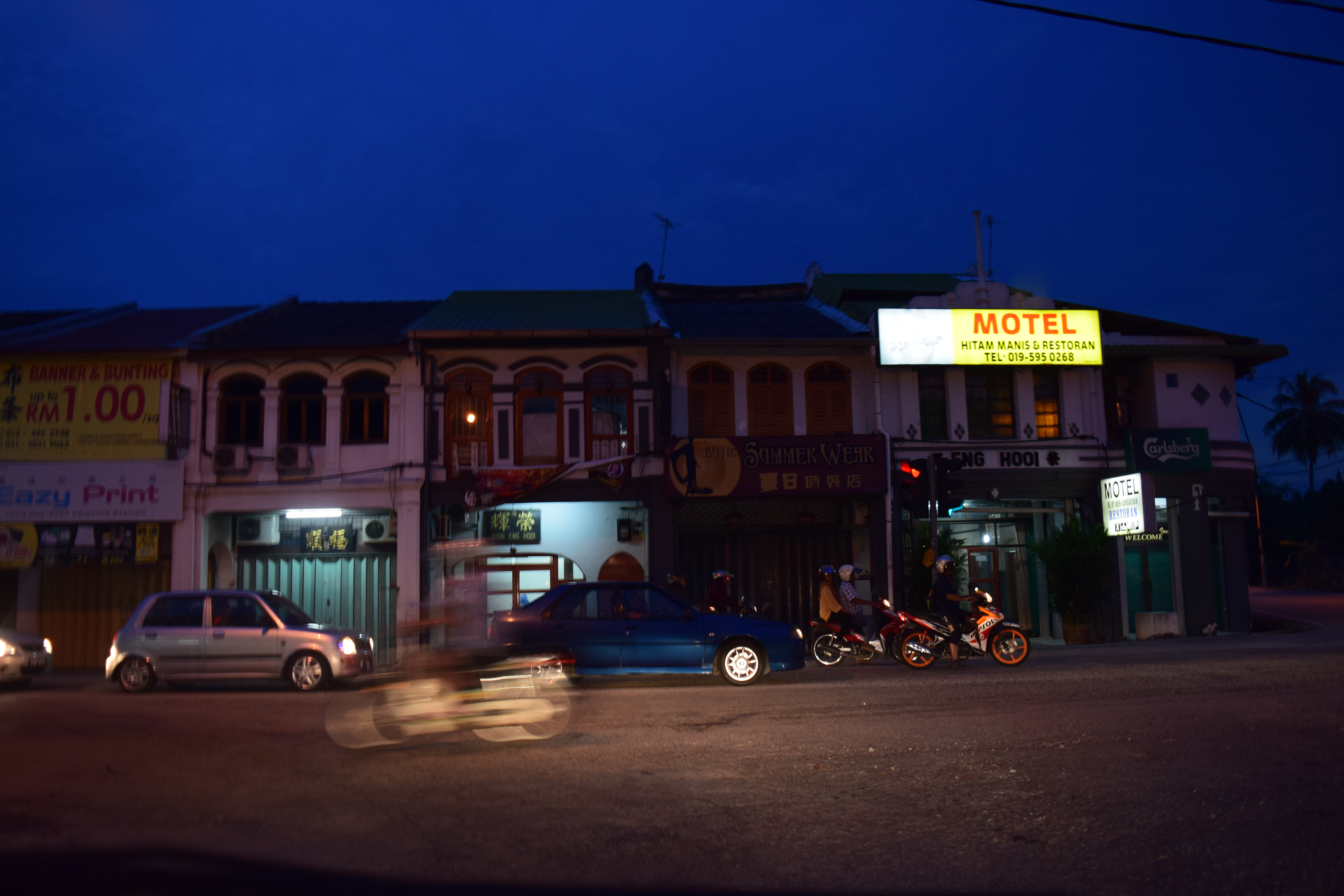 Own work. View of Lunas town